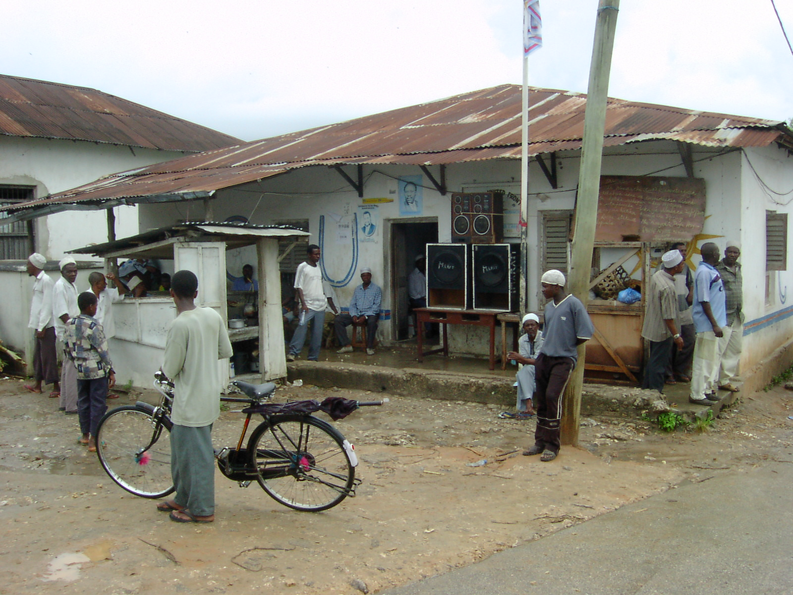 An office of the Civic United Front (CUF, a political party) in Chake Chake, Pemba, Tanzania